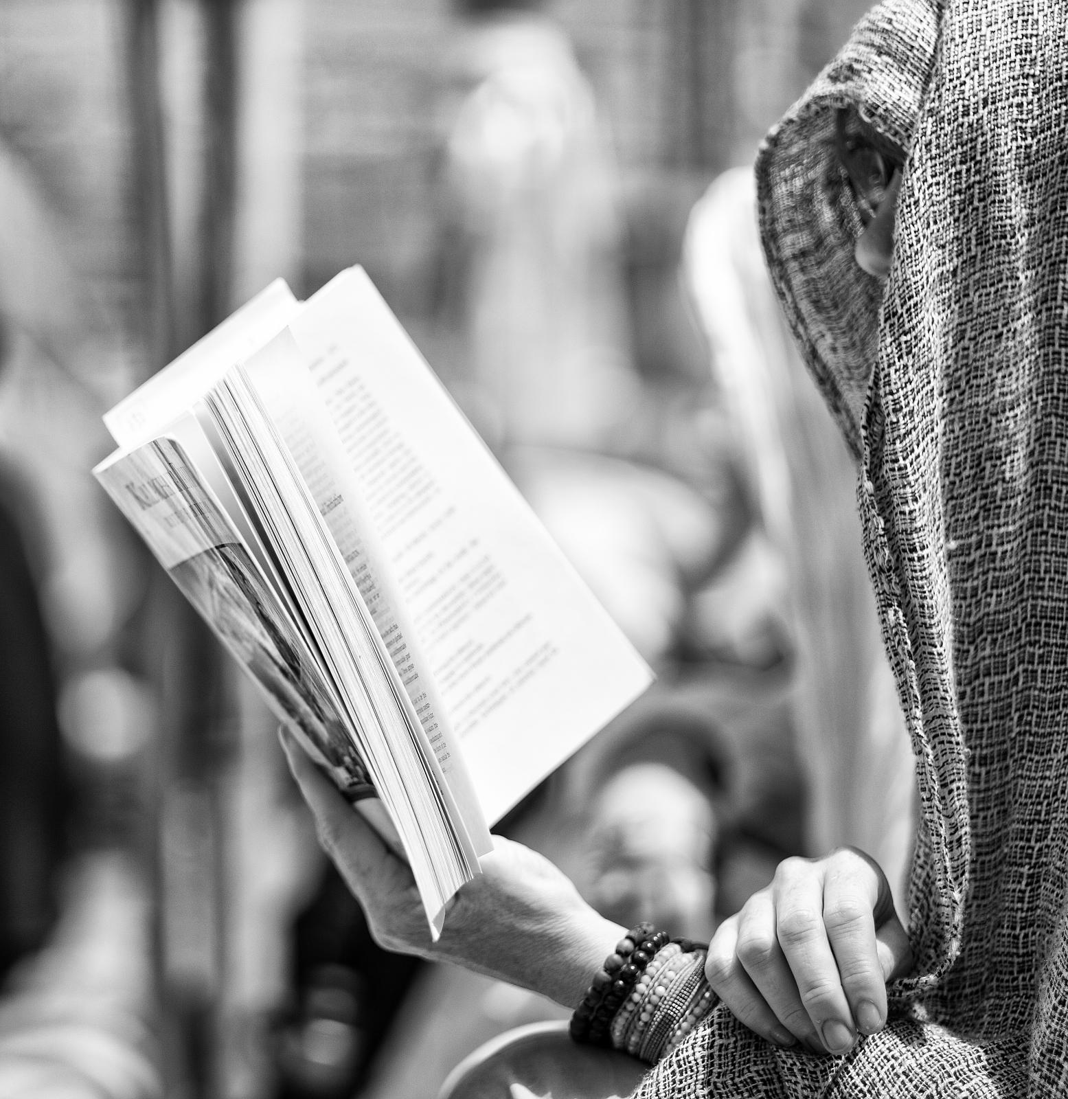 A person reading a book